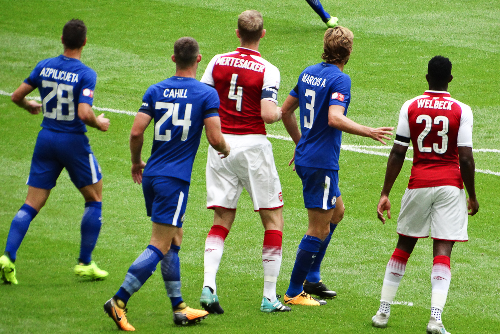 Community Shield at Wembley 6.8.17